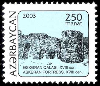 Stamp of Azerbaijan